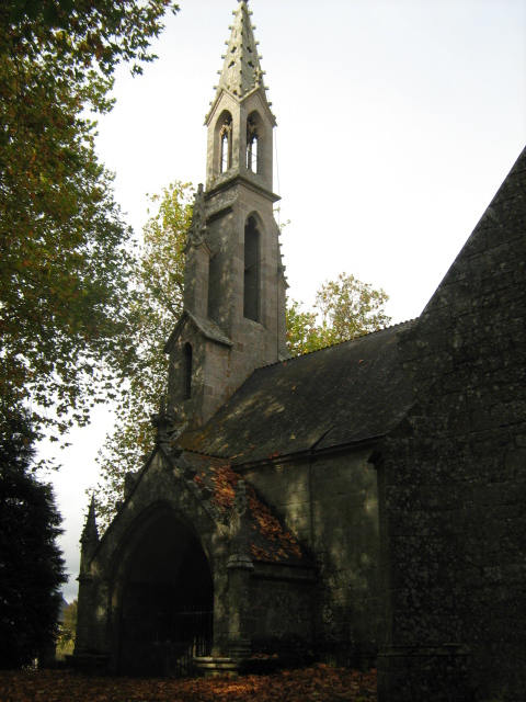 Porch and spire of Saint-Michel chapel, Le Sourn